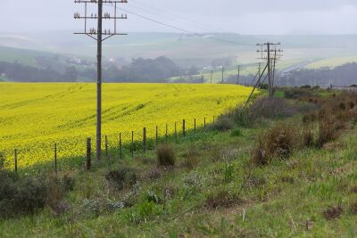 LG Munro, own work